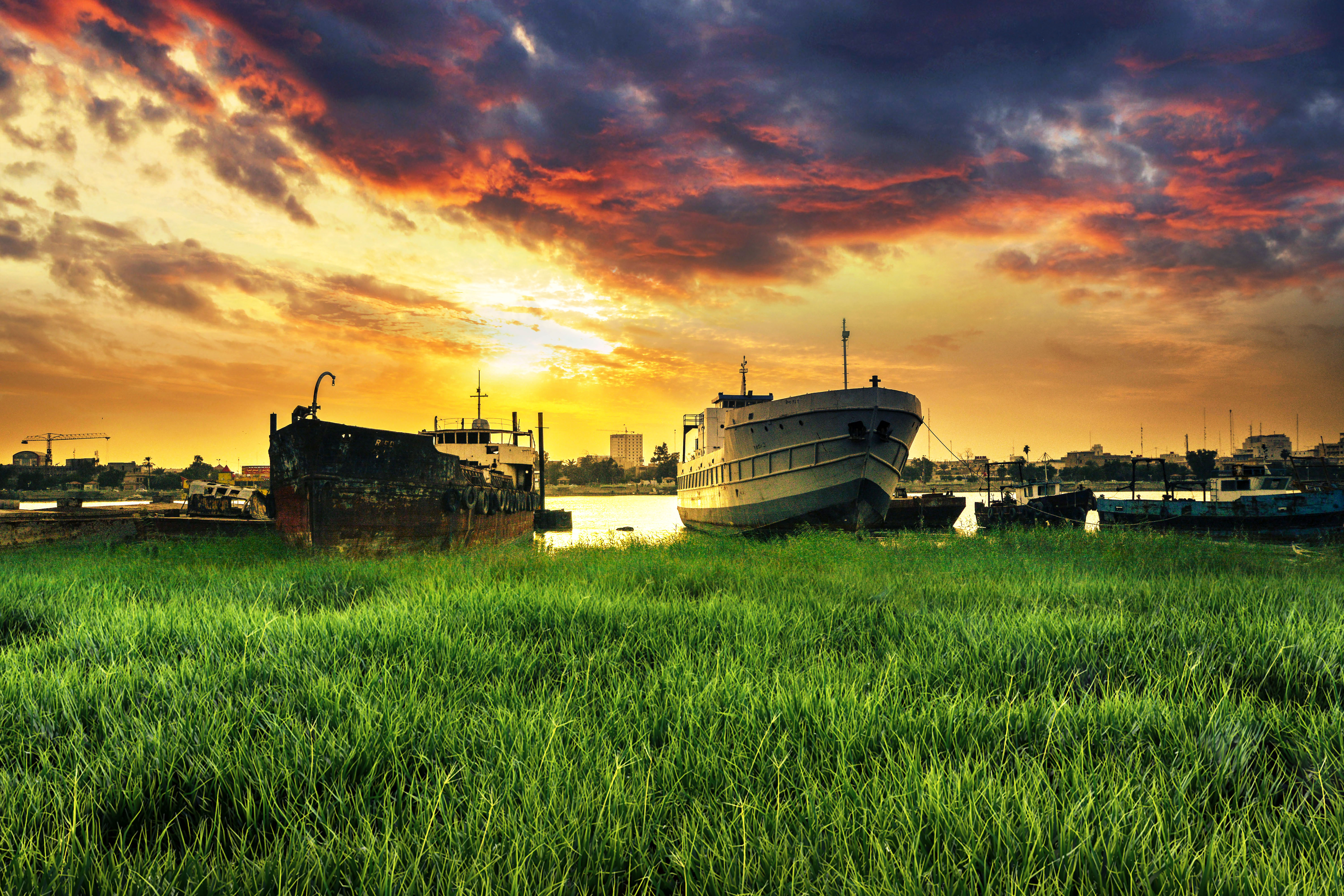 Shatt al-Arab was named Tigris al-Awra, a river consisting of the confluence of the Tigris and Euphrates Rivers, where the rivers meet in the region (Kerma Ali) the northern entrance to the city of Basra, while they meet in the city of Qurna, 375 km south of Baghdad. It is about 190 km long and is located in the Arabian Gulf at the edge of Al Faw city, which is the most extreme point in southern Iraq, and the Shatt al-Arab offer in some areas to 2 km. As for its flora, all were planted with palm trees before the war but were cut and neglected during the last period , And there is a beautiful city located on the banks of the Shatt al-Arab called Altnump where there are abundant palm groves and when the University of Basra was built in this city with its stunning views and charming nature and continues the river in the path until passing the Abu Al-Khasib, a region rich with palm trees, a rural area . Until 1975, all the Shatt al-Arab waters were part of Iraq, but under the Algiers agreement, Iraq relinquished the eastern coast bordering Iran. Navigation became common. It is the intention of the local government in the city of Basra to make the island of Umm al-Rasat overlooking the Shat tourist area, but did not actually begin the completion of the project and on a related scale has expanded the talk recently about the growing phenomenon of pollution of the Shatt al-Arab water and there are speaking with experience in the field of environmental protection for the existence of Oil stains in some areas of water from the river, and the Shatt al-Arab from the deepest water bodies in Iraq, where large vessels can walk through to inside Iraq. The branch of the Shatt al-Arab River is divided into many marshes that divide the cities and the visual districts, forming one of the sweetest scenes in Basra. The local government in Basra has developed the Sayab Corniche, named after Basra poet Badr Shaker al-Sayab and Cornish Palace on the banks of the Shatt al- Occasions